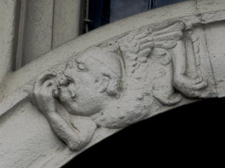 Nathaniel Hitch carving on exterior of "Black Friars" Public House